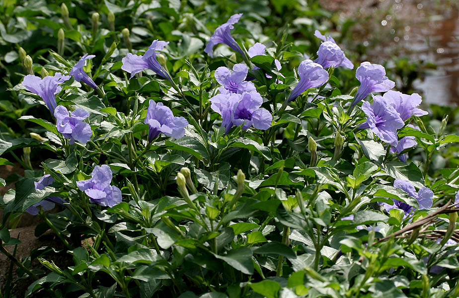 POTPOTI, Wayside Tuberrose or bluebell Ruellia tuberosa in Hyderabad, India.